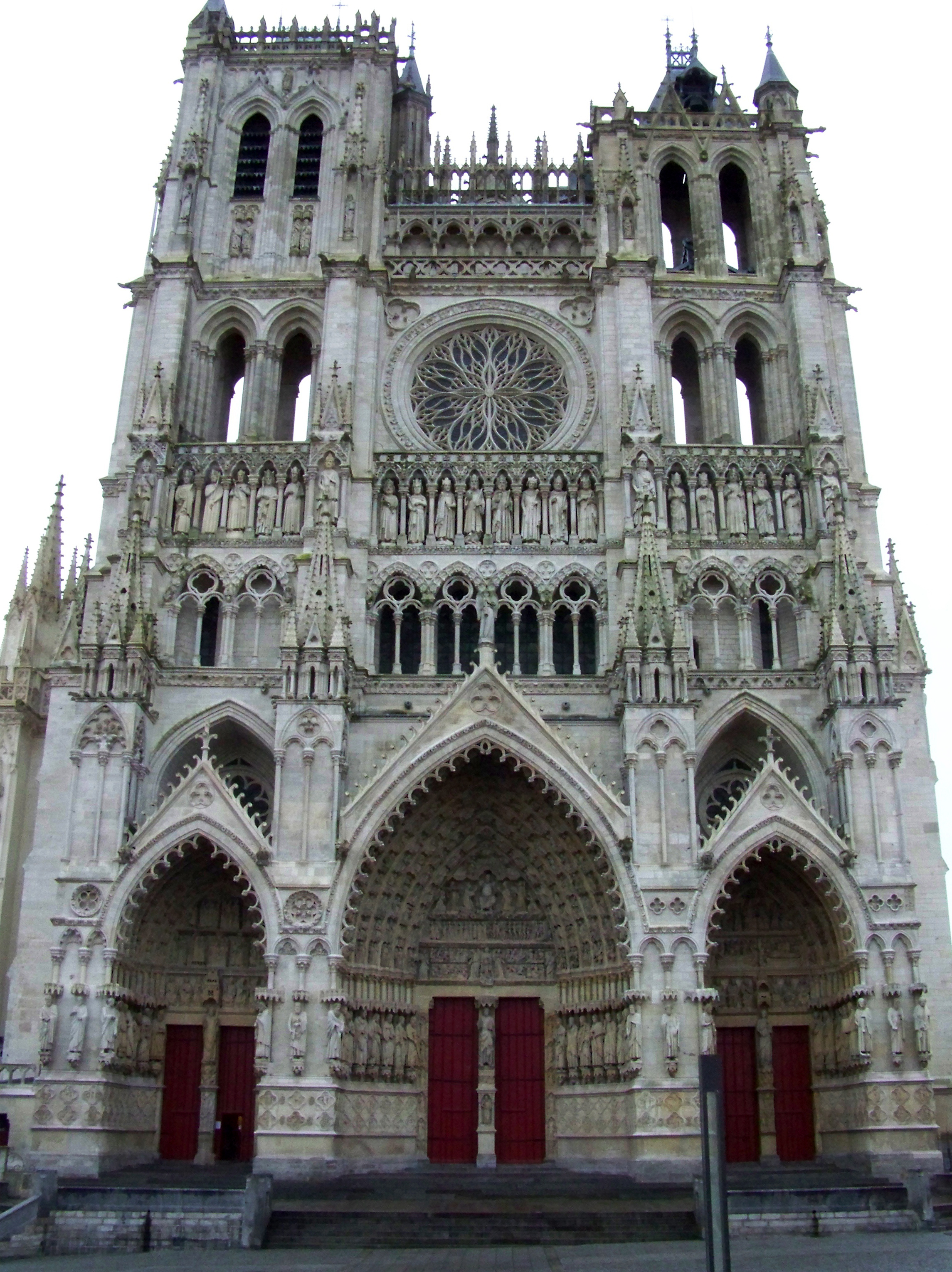 Facade of the cathedral Notre-Dame in Amiens, France